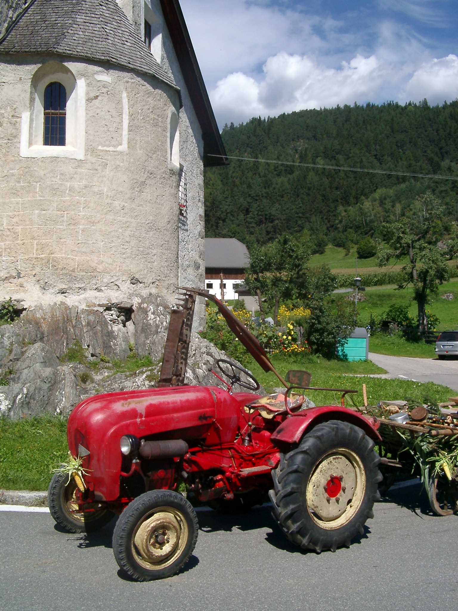 Old Porsche-Diesel tractor in St. Lorenzen, South Tyrol